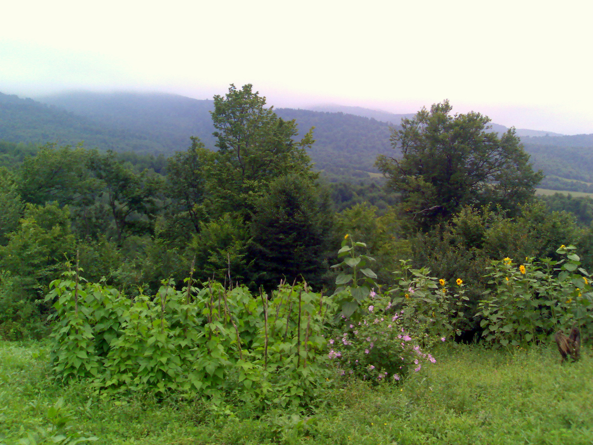 Forests near Vanadzor, Armenia.